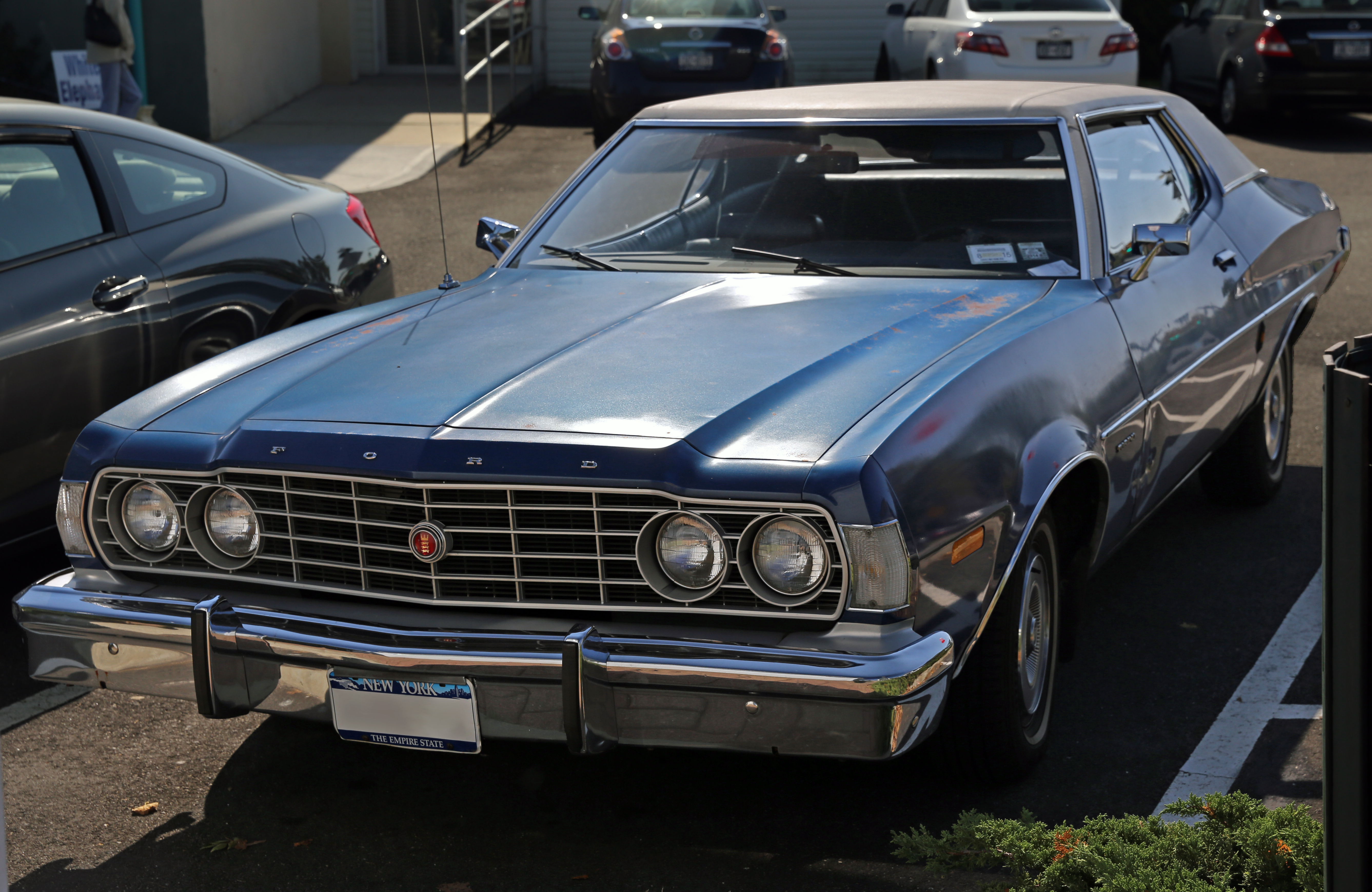 Front view of a 1973 Ford Torino 2-door hardtop. The '73s have a large safety bumper up front, but retain the small rear bumper from the previous model year. The regular Torino has a completely different grille and headlight layout than the more expensive Gran Torino. According to the chassis number on the registration, this car is a 4-dr with the 1-bbl 250ci six. I have my doubts.